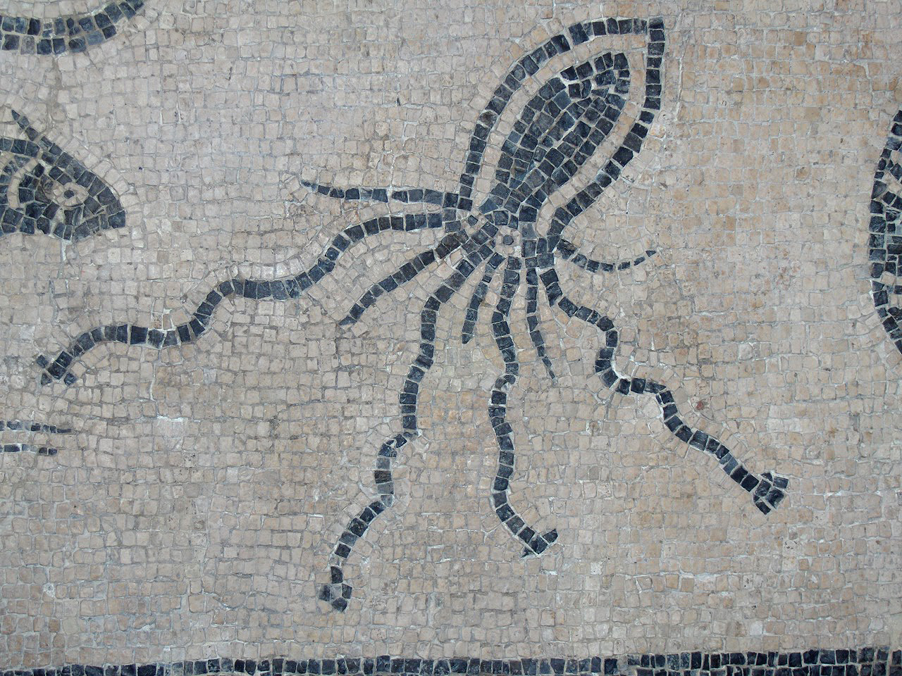 Mosaic of an octopus from a Roman house in Ariminum (Rimini) during the Roman Empire. On display at the Museo della città di Rimini.